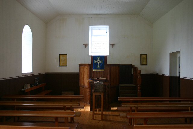 St Kilda church interior. The renovated interior, complete with pulpit and Scottish Gaelic Bible.